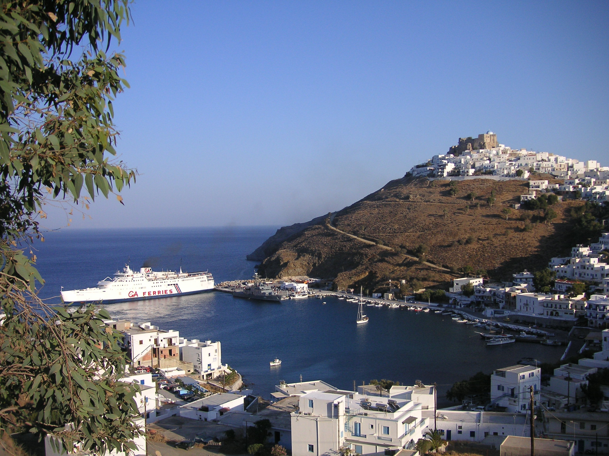 View of the city and the harbour. Astipalea (or Astypalea or Astypalaia, Greek: Αστυπάλαια) is a Greek island with 1,238 residents (2001 Census). It belongs to the Dodecanese, an island group of twelve major islands in the southeastern Aegean Sea.